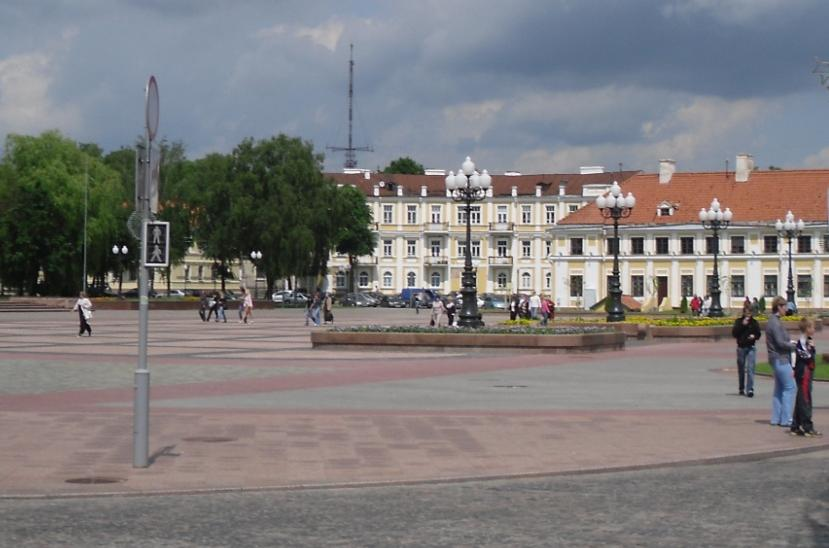 Lenin Square/Tyzenhaus Square